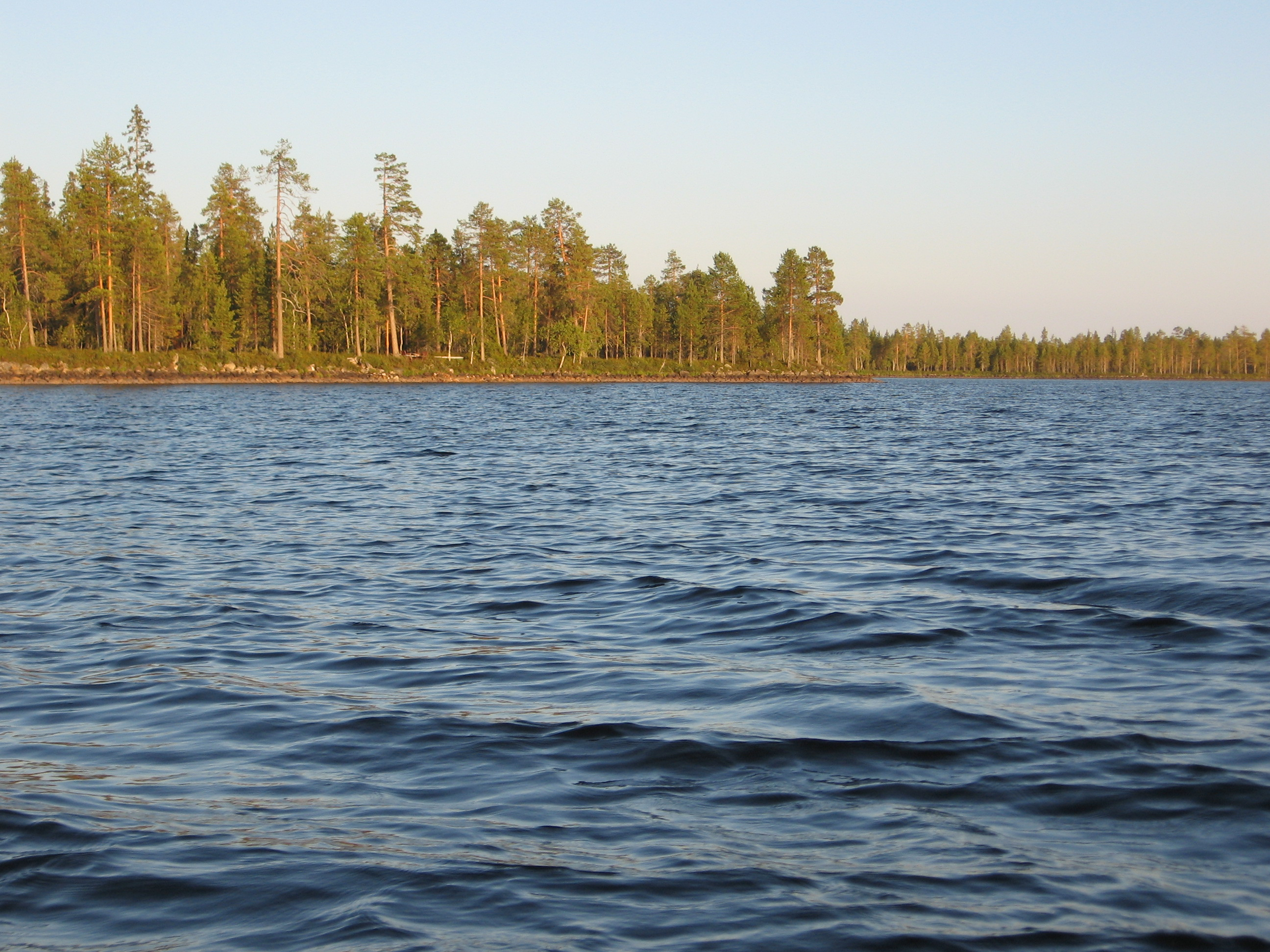 Simojärvi lake in Ranua, Finland